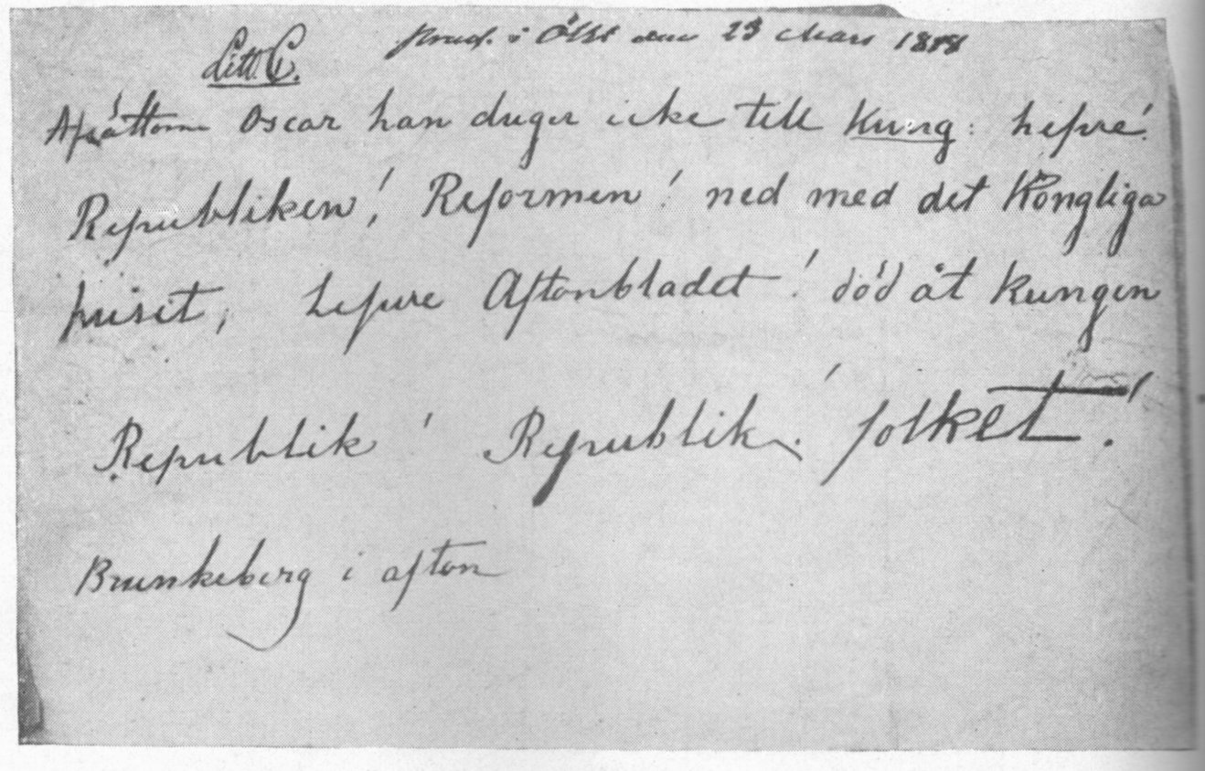 Call for overturning the monarchy of Sweden and instituting a republic. From riots in Stockholm 1848. "Dethrone Oscar he is not fit to be a king: long live the Republic! The Reform! down with the Royal house, long live Aftonbladet! death to the king / Republic Republic the people. Brunkeberg this evening"